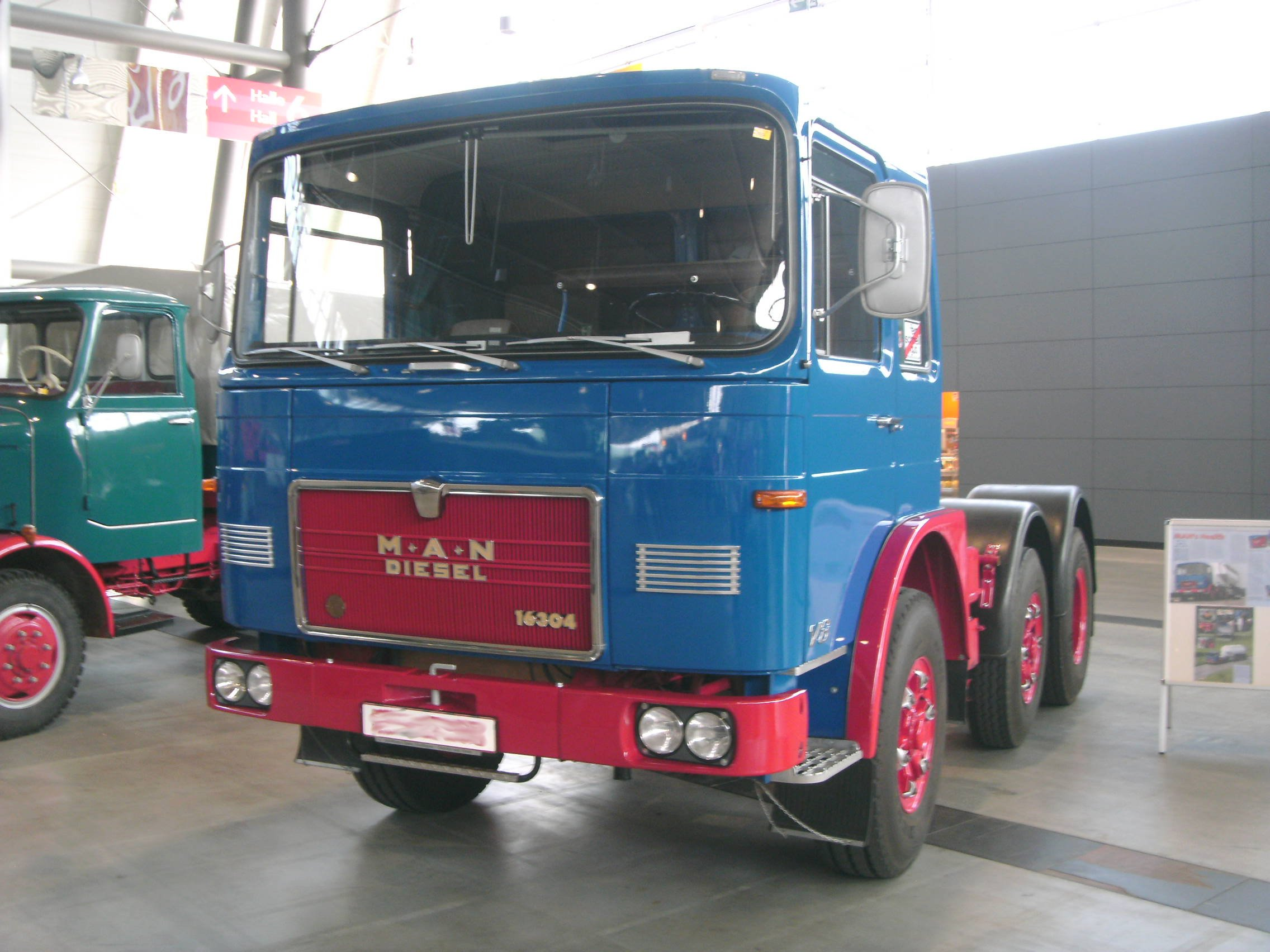 MAN_16.304_FNS at Retro Classics 2012